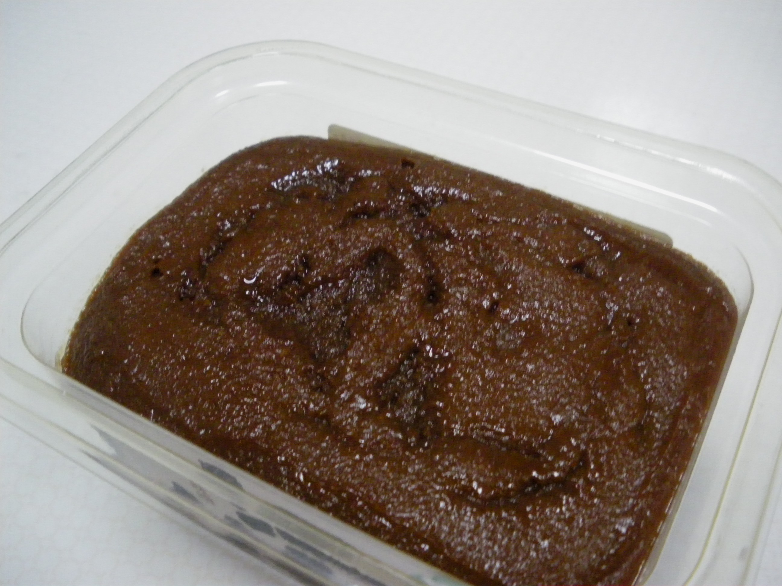 A photo of miso which is in a container of the plastic.